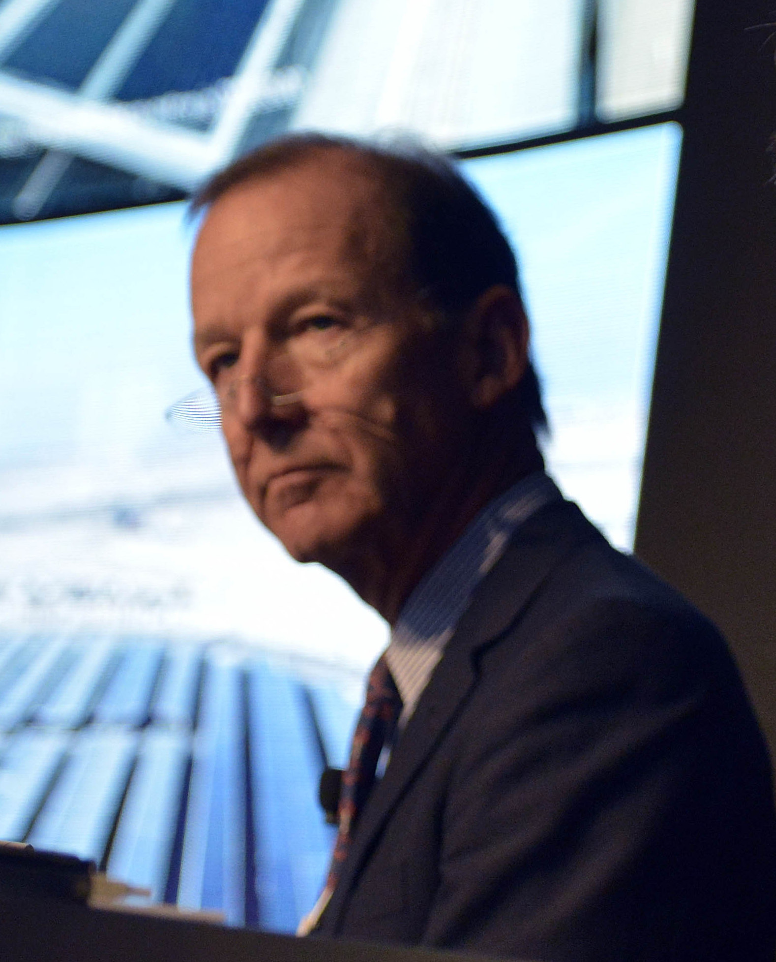 Theodore Roosevelt IV, Managing Director and Chairman, Cleantech Initiative, Barclays, USA at the Annual Meeting of the New Champions in Tianjin, China 2012